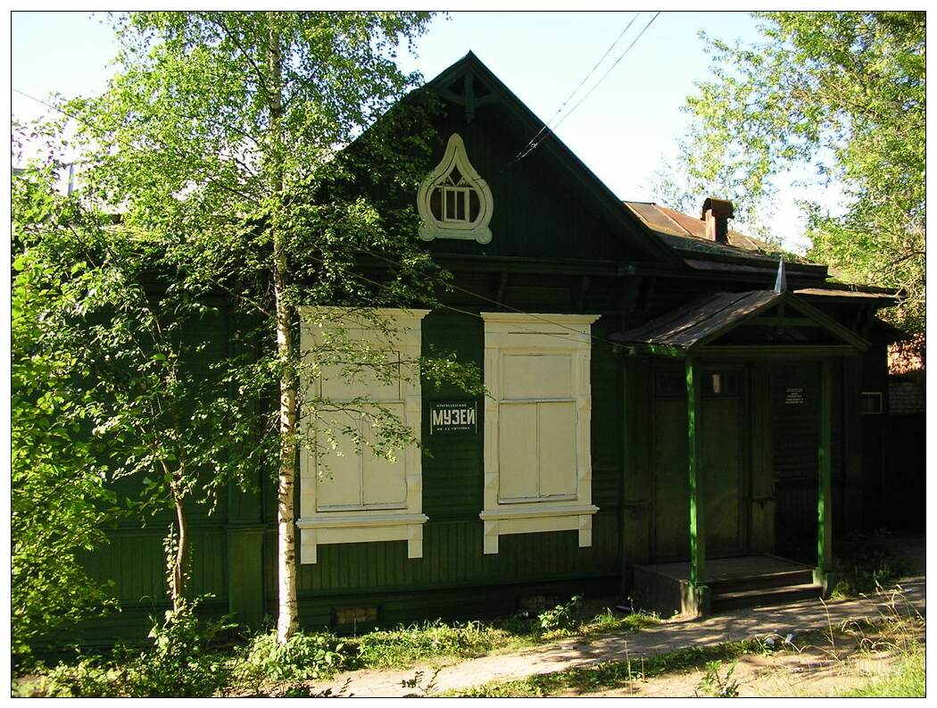 Museum in Maksatikha, Russia.